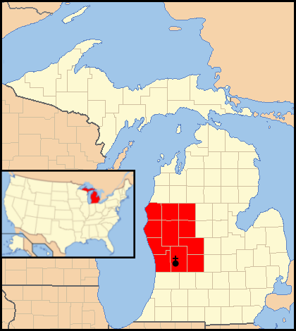 Map of the Catholic Archdiocese of Grand Rapids in the USA.